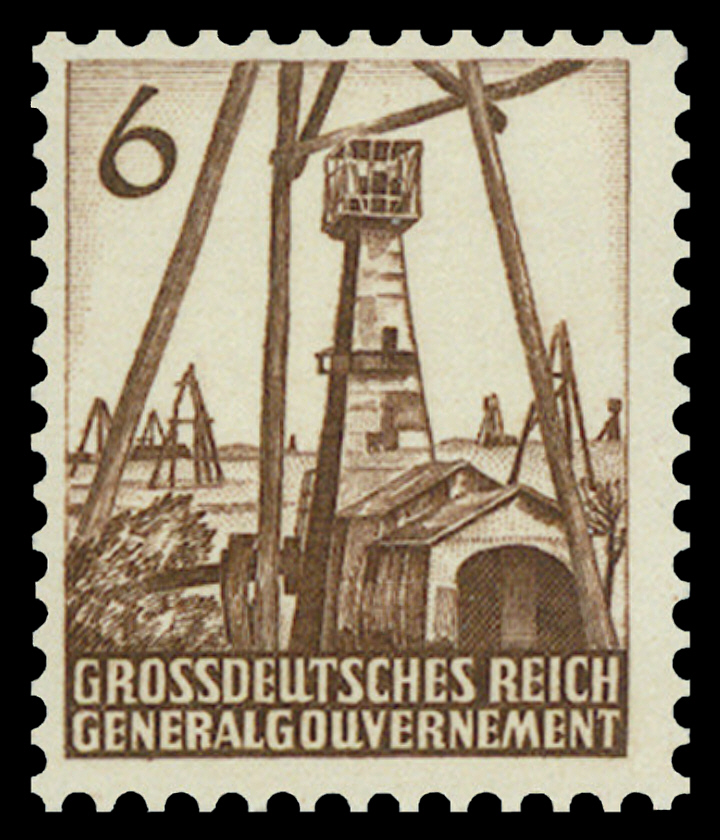 Motives of Poland Ausgabepreis: 6 Groschen First Day of Issue / Erstausgabetag: (1944) nicht ausgegeben Michel-Katalog-Nr: I (Generalgouvernement